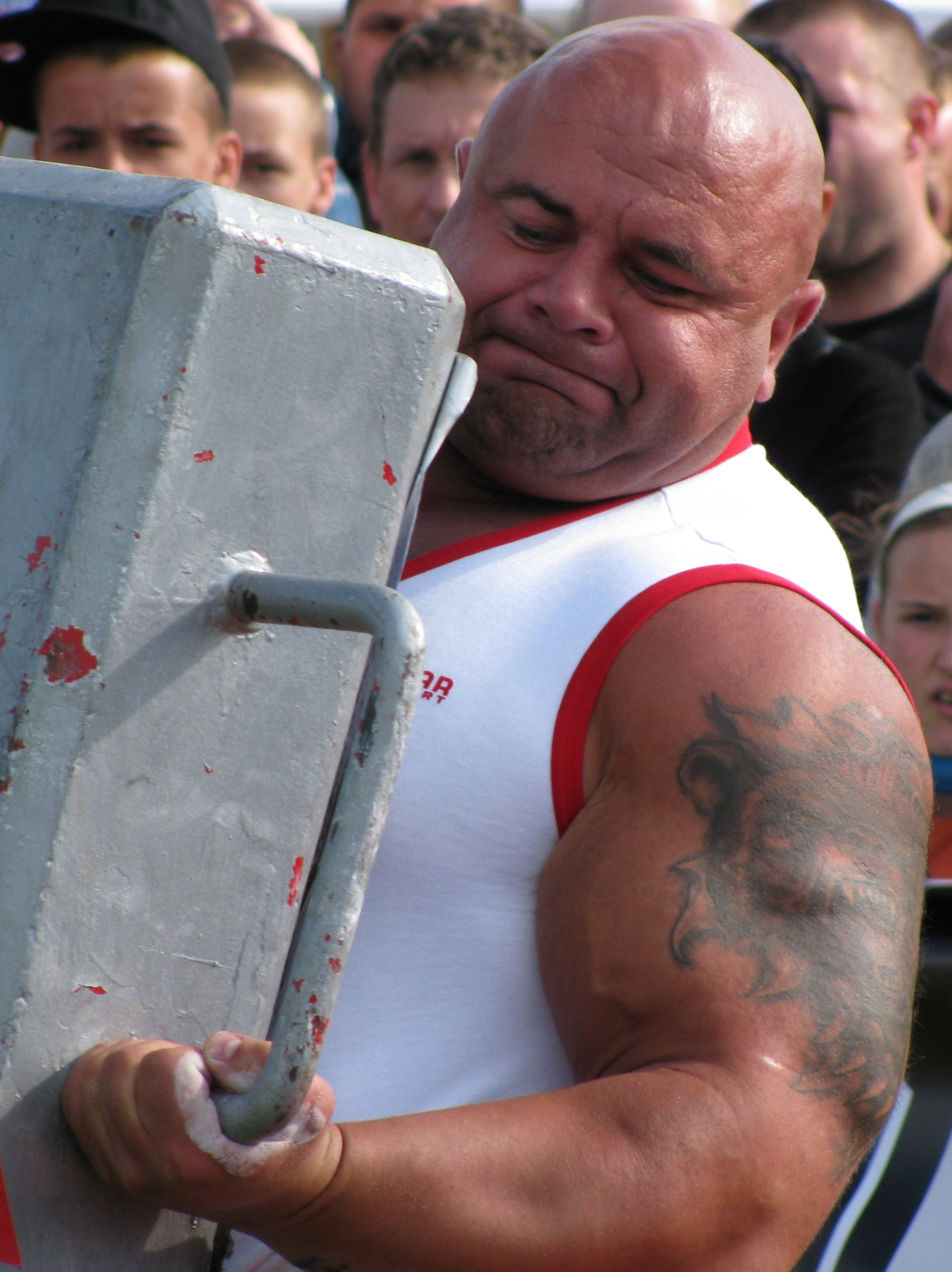 Ireneusz Kuras - a strength athlete from Poland